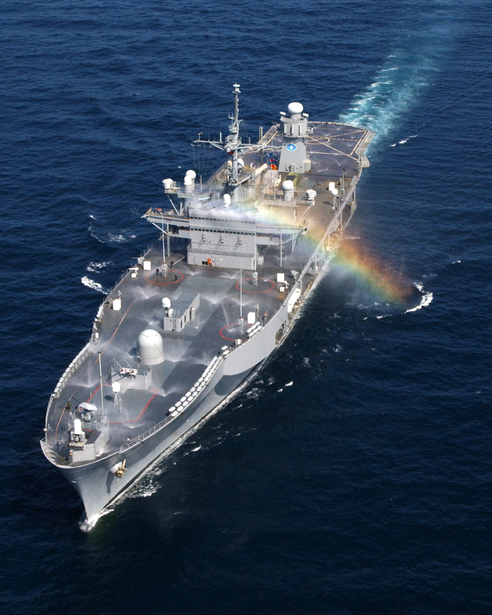 Horn of Africa (Feb. 5, 2003) - A small rainbow cascades across the 2nd Fleet command and control ship USS Mount Whitney (LCC 20) as she tests her Counter Measure Wash Down System (CMWDS). The wash-down system is used to help the ship combat a Chemical, Biological or Radiological attack. Mount Whitney and embarked Marines are deployed to the Horn of Africa region to participate in Operation Enduring Freedom (OEF) and the continuing Global War on Terrorism. U.S. Navy photo by Photographer's Mate 2nd Class George Kusner. (RELEASED)